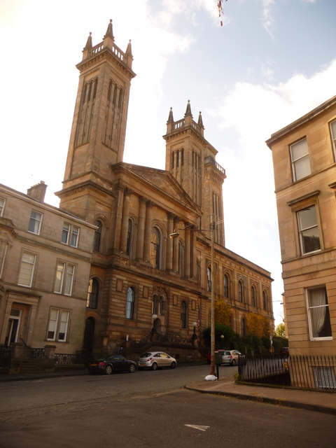 Glasgow: Trinity College frontage Another view of 1539325, from the west, in Lynedoch Street.